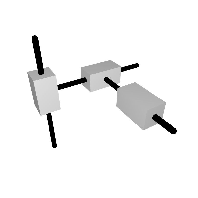 Kinematic diagram of Descartes robot